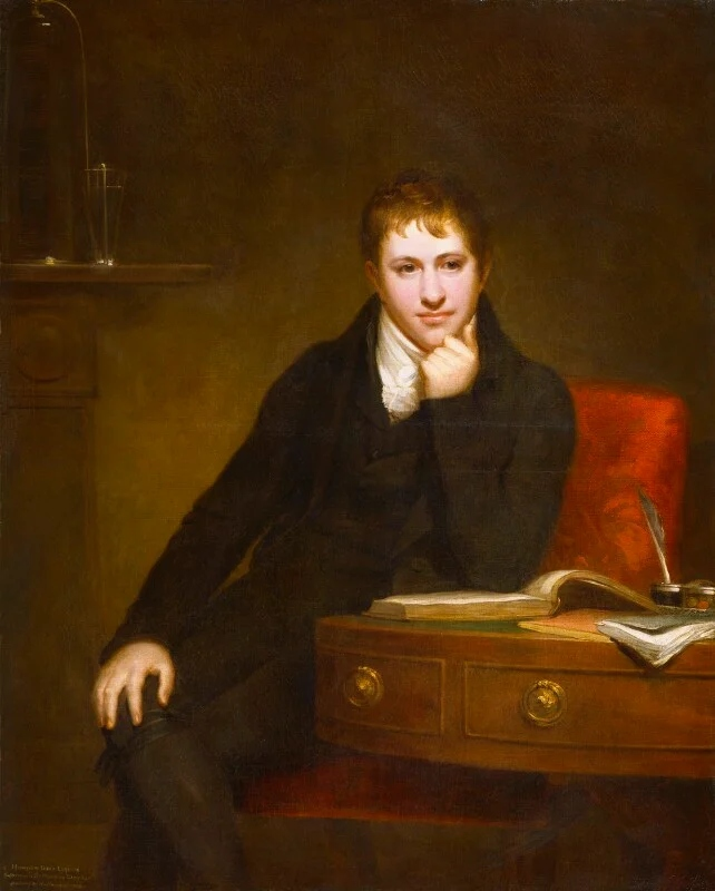 Detail from a painting of Humphry Davy, the noted scientist